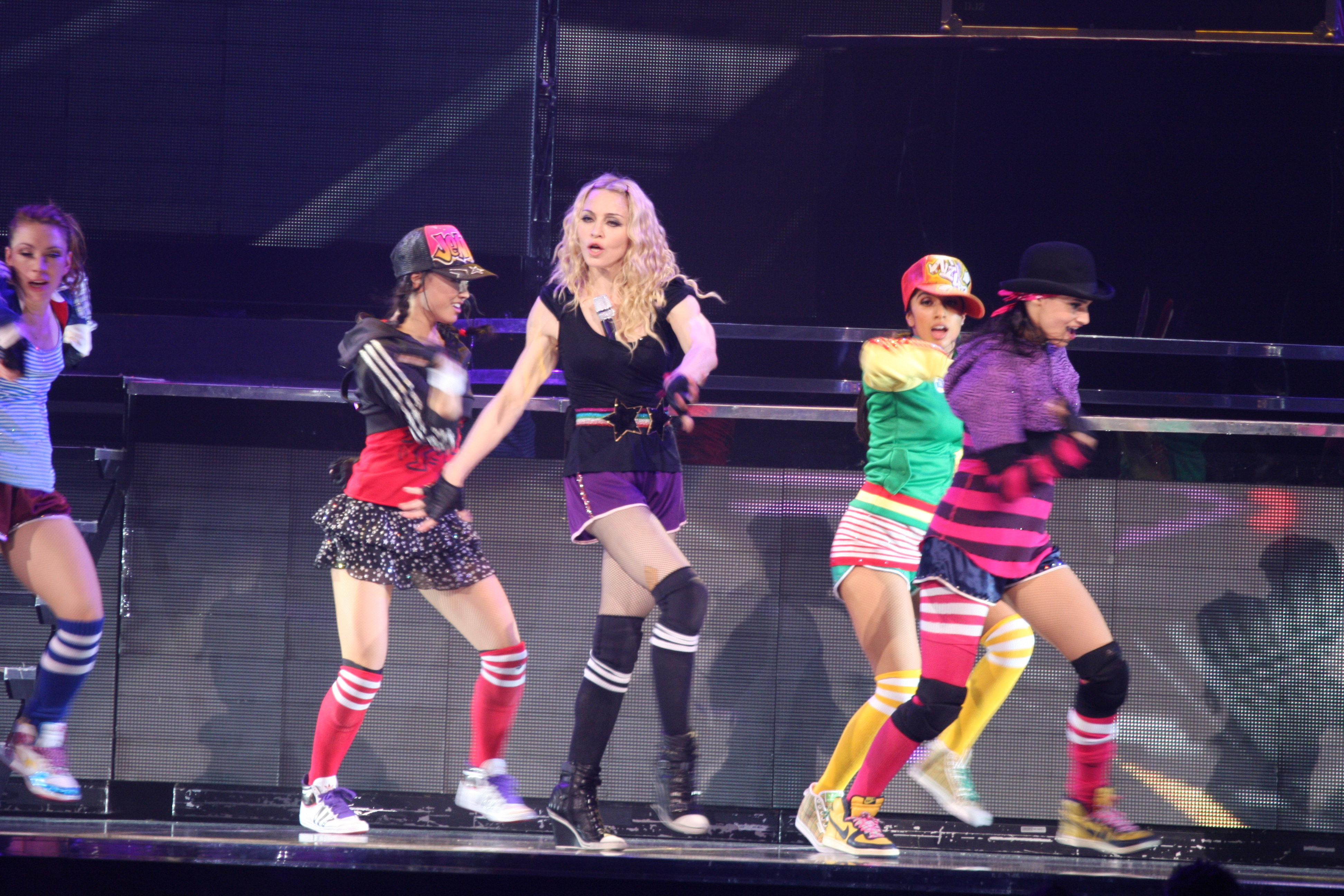 Music Sticky & Sweet Tour 2008